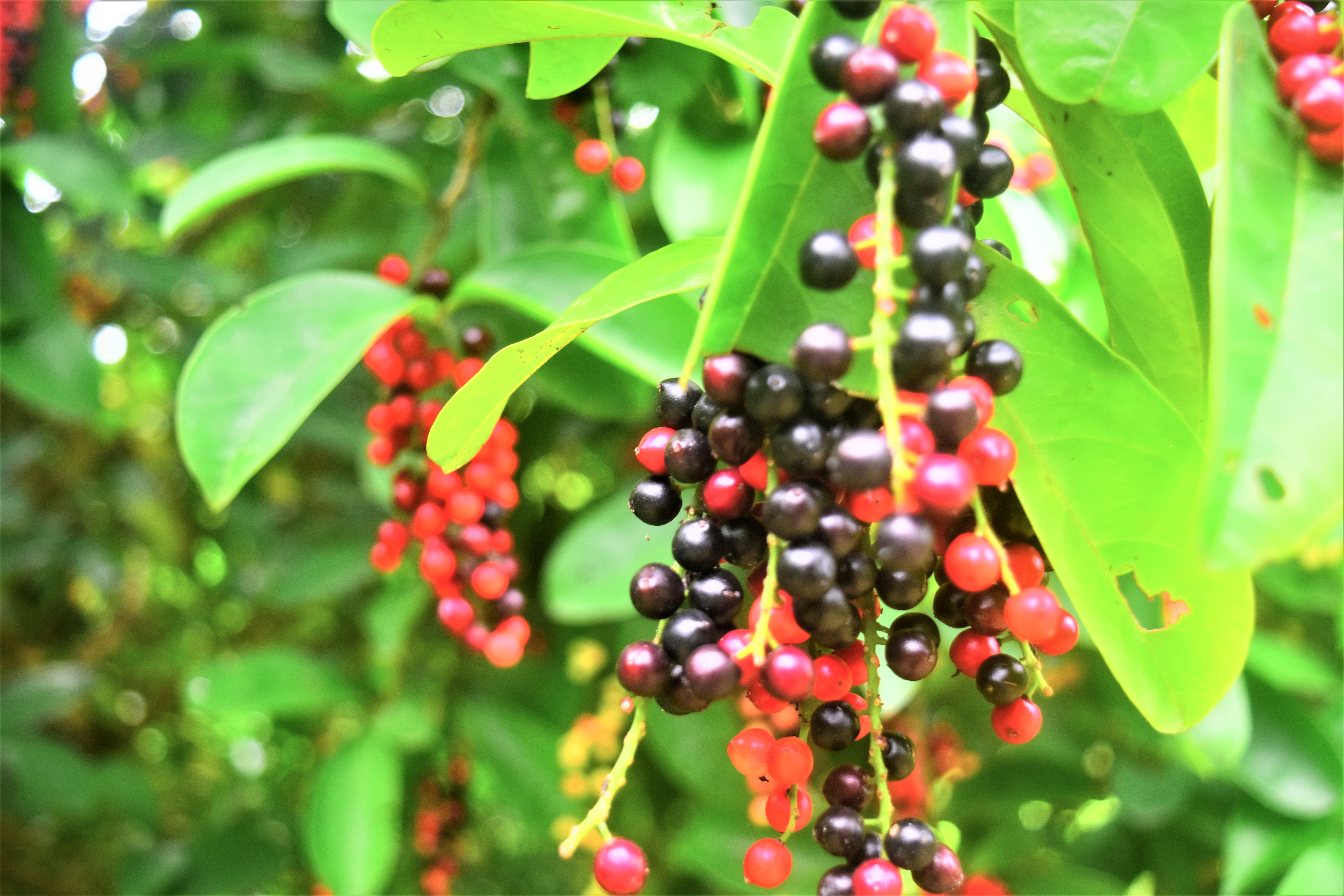 This photo was taken at Mt. Isarog, Camarines Sur, Philippines